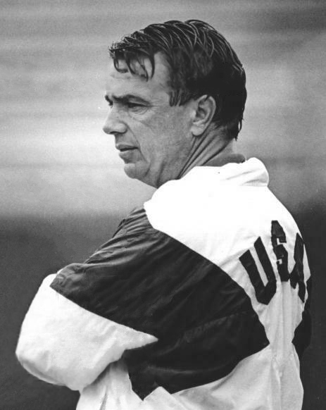 1988 Press Photo US Olympic Field Hockey Coach, Boudewijn Castelijn